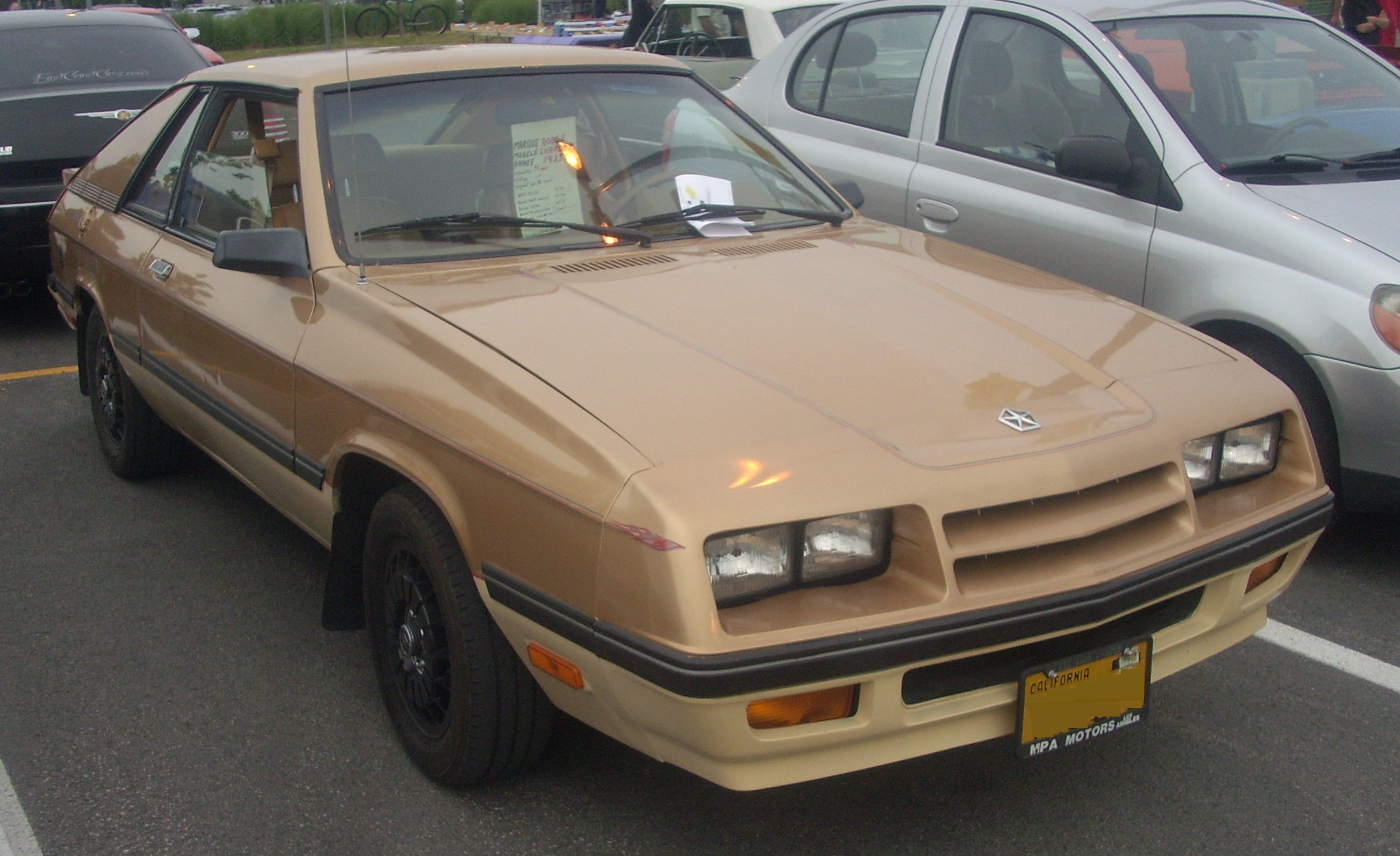 1985 Dodge Charger photographed in Laval, Quebec, Canada at Centropolis Laval.